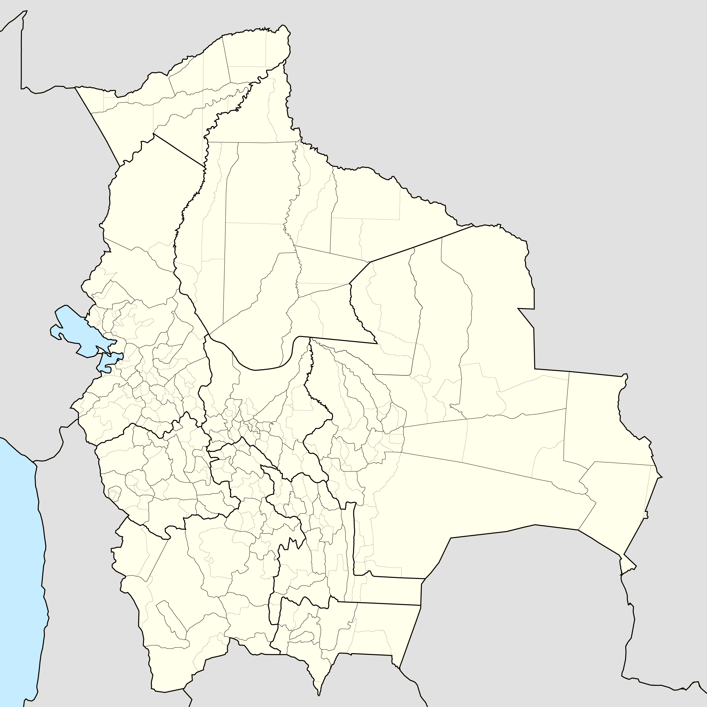 Map of Bolivia showing the administrative devisions of Bolivia